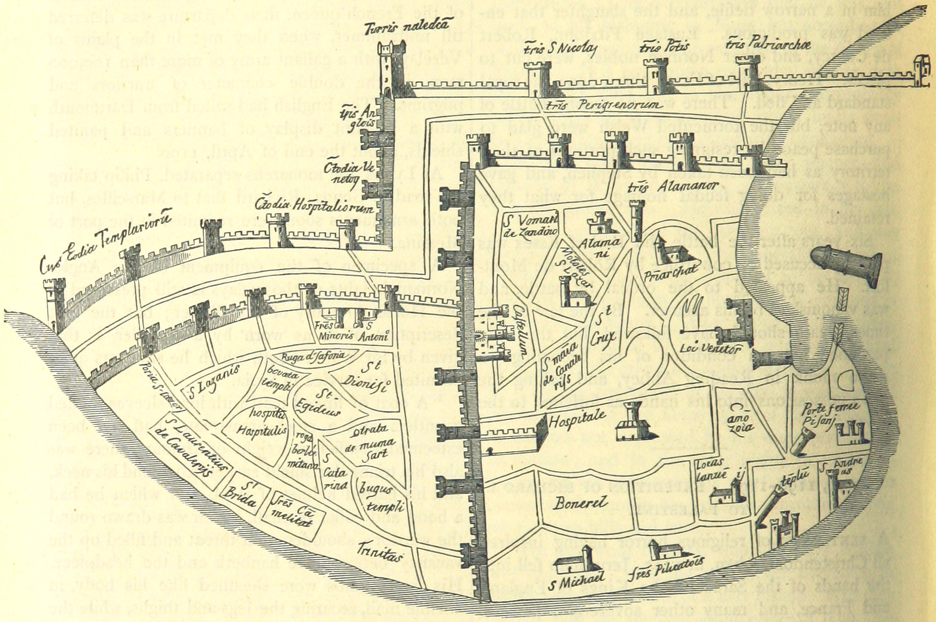 View this map on the BL Georeferencer service.